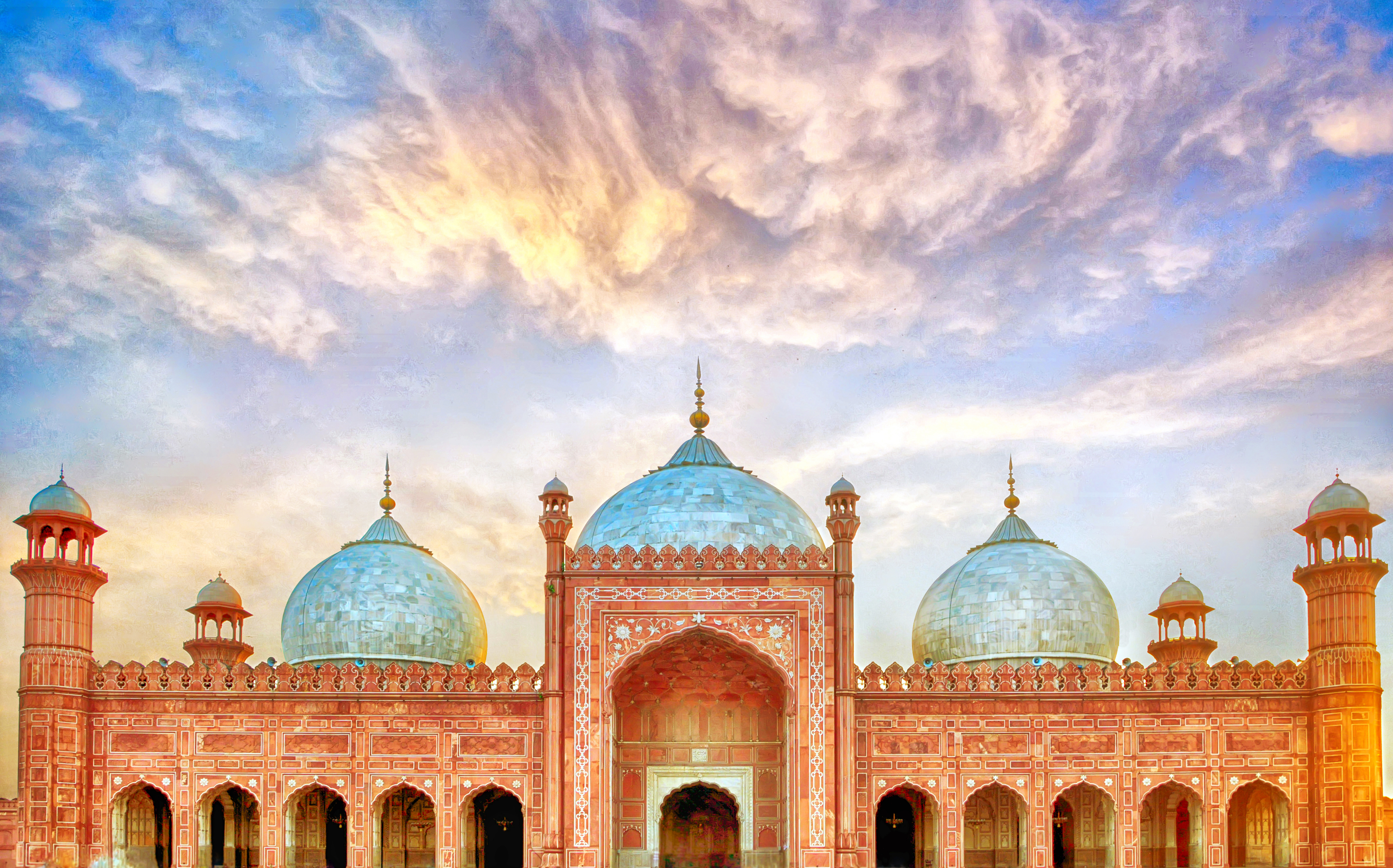 Badshahi Mosque (King’s Mosque) This is a photo of a monument in Pakistan identified as the PB-44